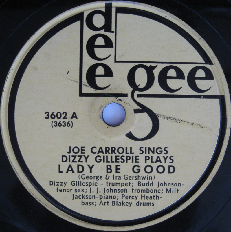 joe carroll lady be good shellack 78